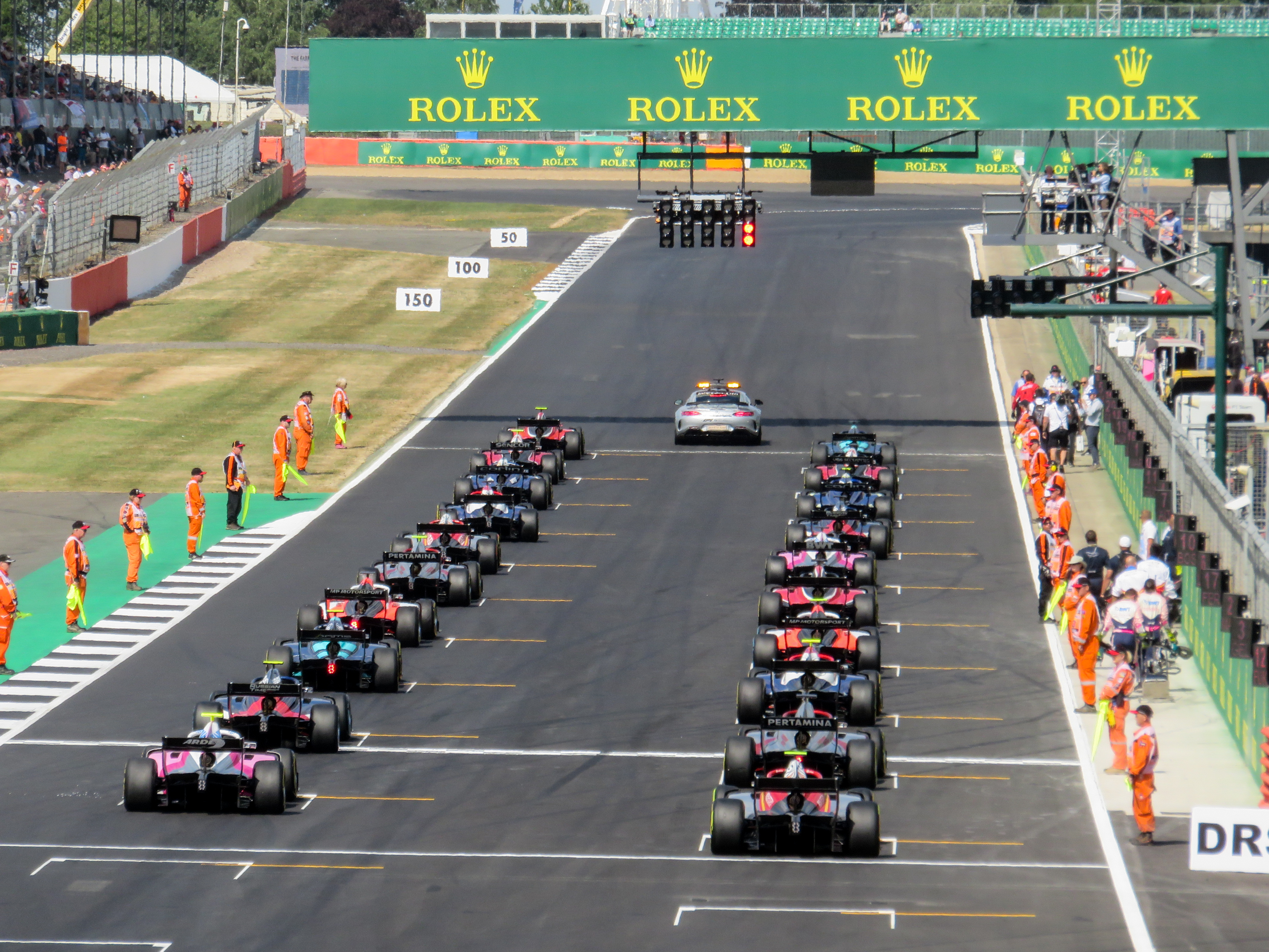 2018 FIA Formula 2 Championship, Silverstone Circuit.